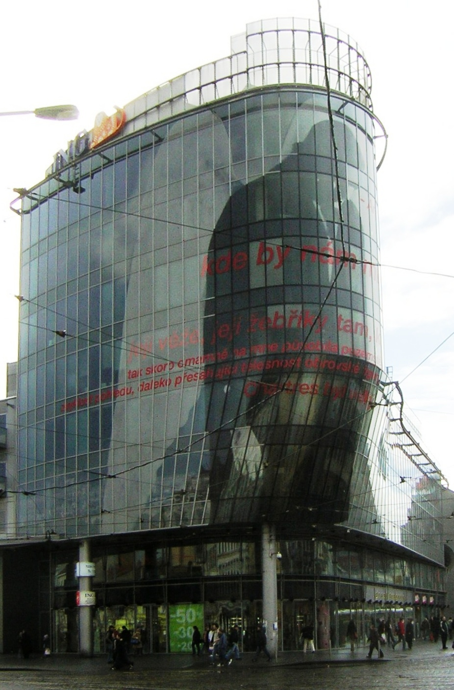 Golden Angel (Prague) by Jean Nouvel (1994-2000) from NE